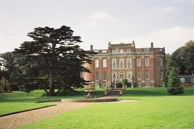 Chettle House and gardens